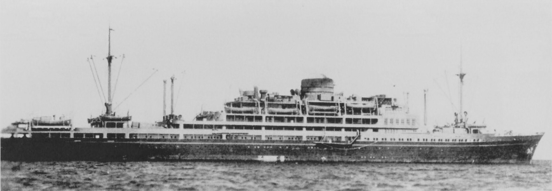 O.S.K. Line "Brazil Maru", In Apra Harbor, Guam or Saipan, 1942.